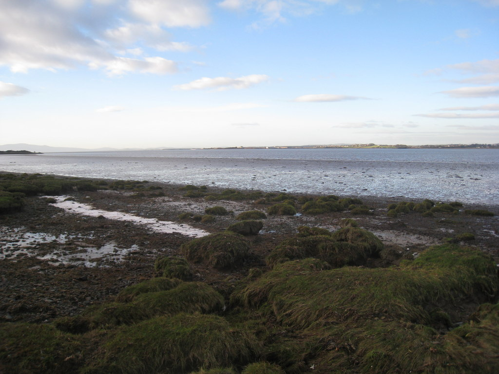 The Solway shore at Bowness